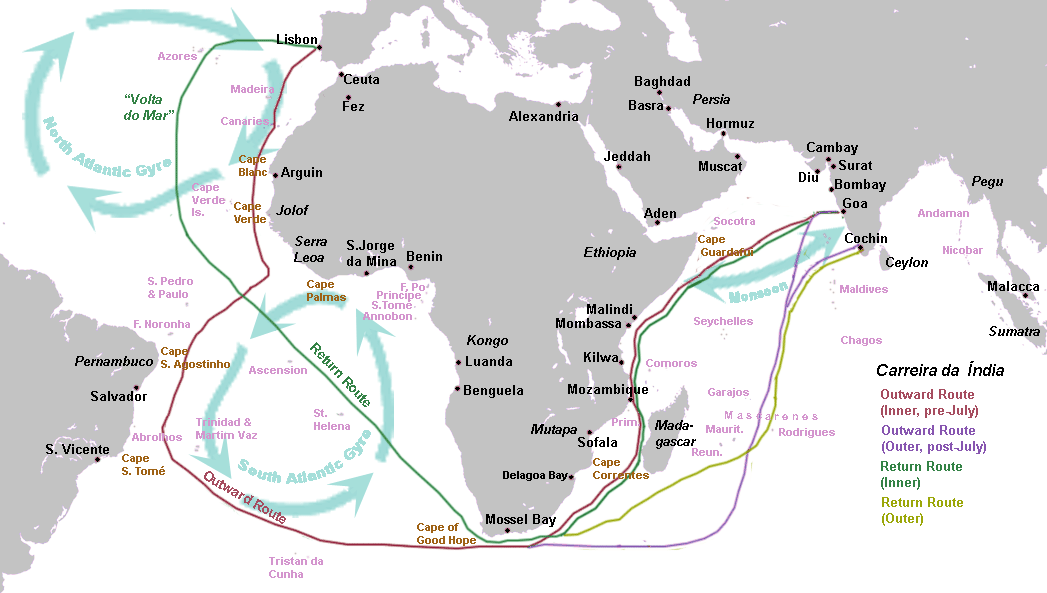 Map showing the various outward and return legs of the Portuguese 'Carreira da India' ('India Run') in the 16th C.